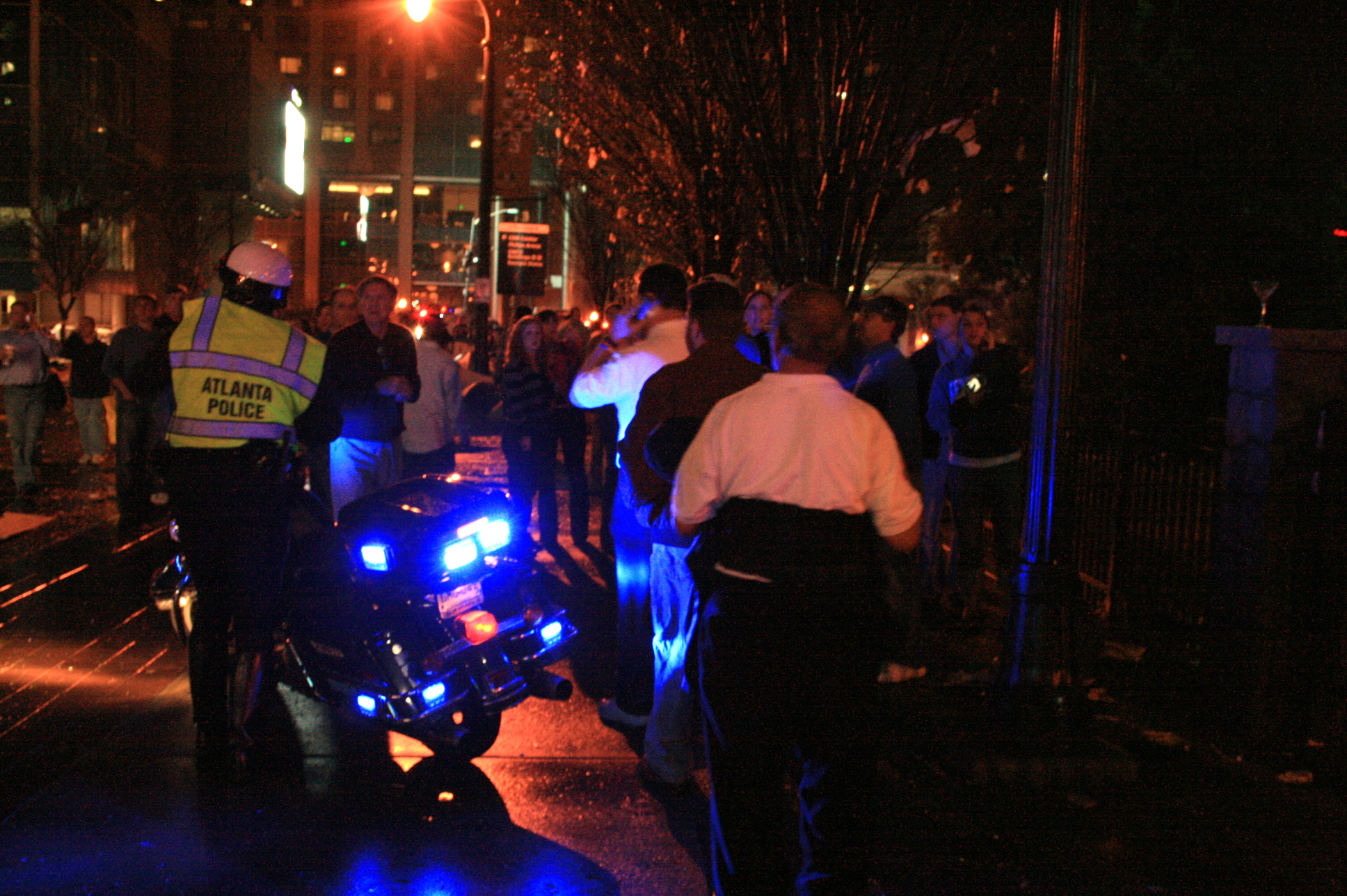 A motorcycle policeman responding after the tornado.